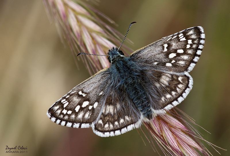 Pyrgus sidae (Yellow-banded Skipper), Ankara, TurkeyTürkçe: Sarıbandlı Zıpzıp, Ankara, Türkiye